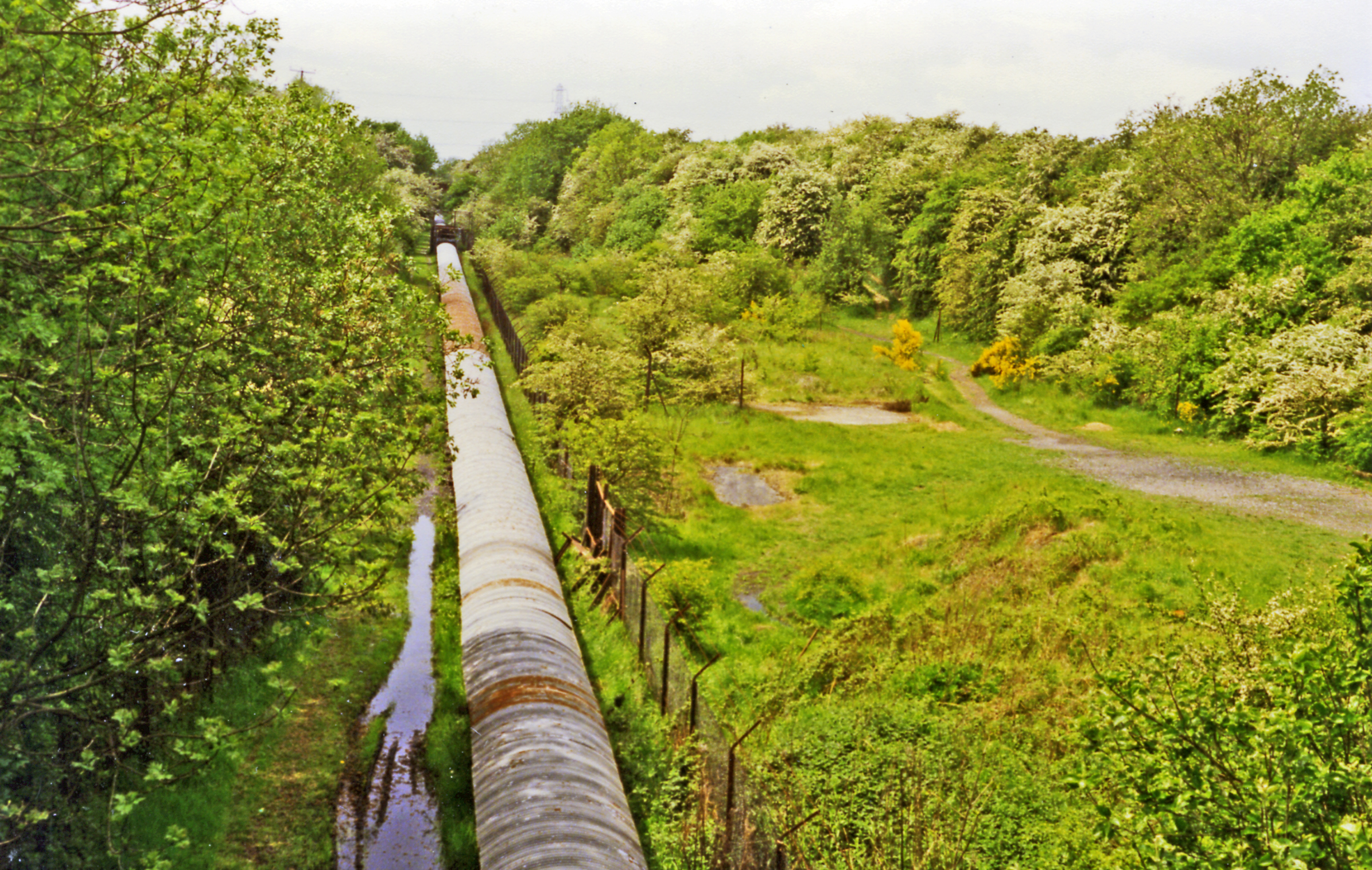 Site of Hugglescote station. View westward, towards Nuneaton: ex-LNW & Midland (Nuneaton & Ashby) Joint Railway, Shackerston Junction - Coalville - Loughborough (Derby Road) branch. The station and line closed to passenger traffic from 13/4/31, but goods continued until 6/4/64. Here the track-bed is occupied by a conveyor bringing coal [?] from an overcast site. [More information, please?].